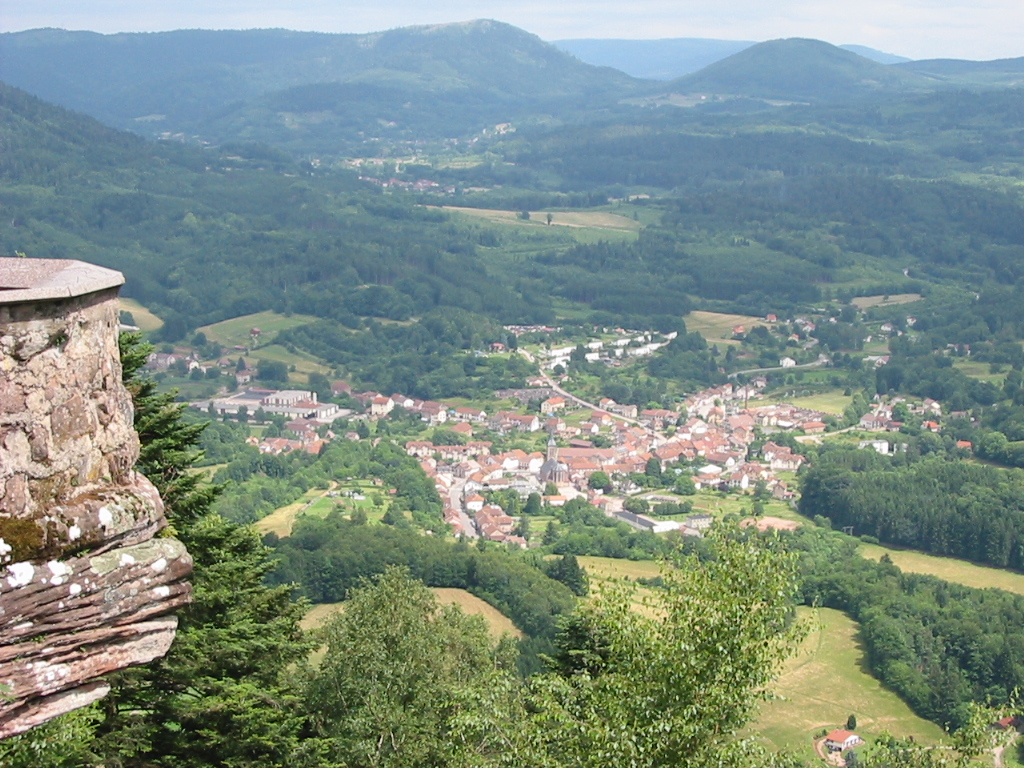 La Petite-Raon is a village and commune in the Vosges département of northeastern France.